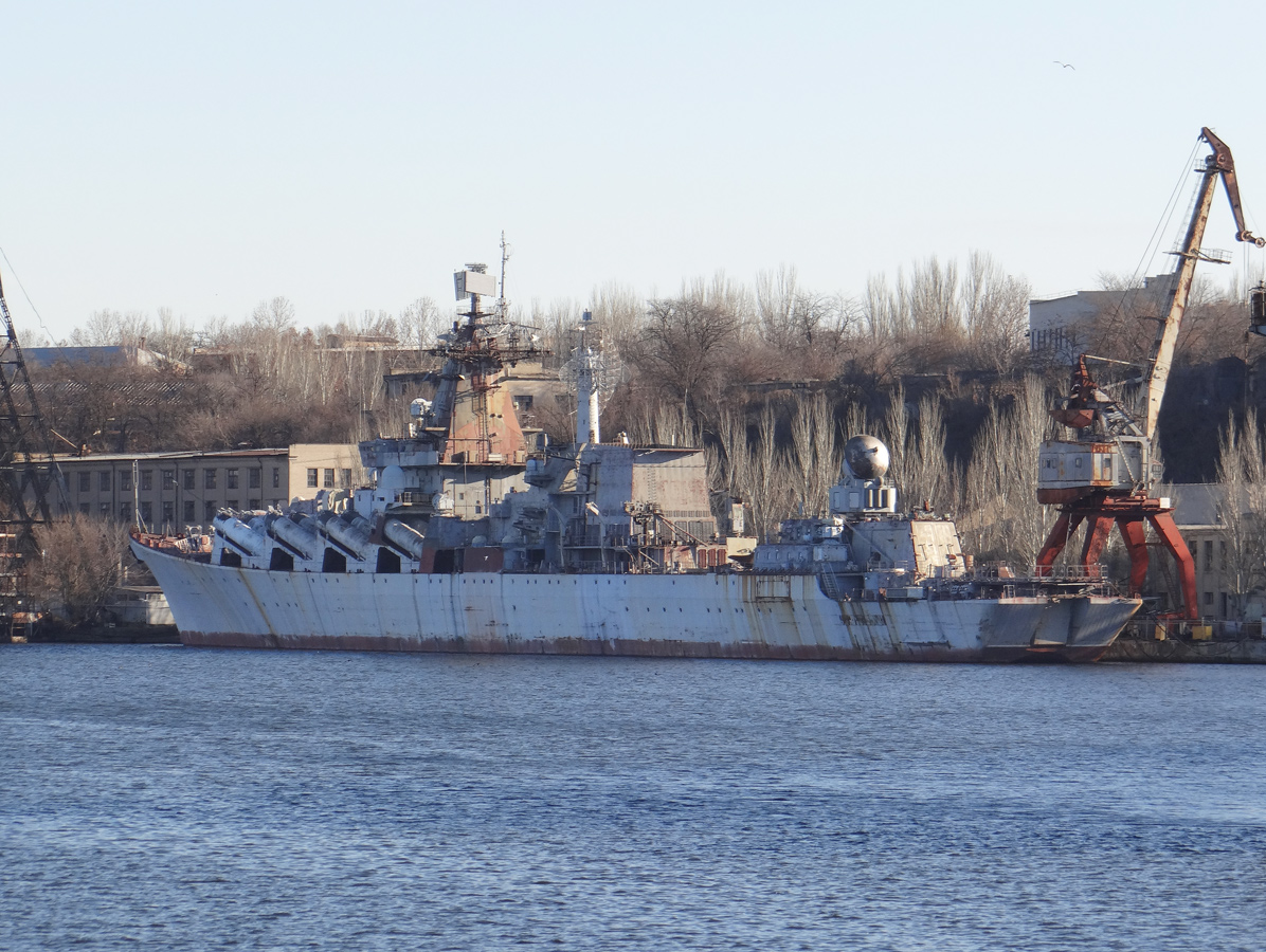 Ukrayina at Shipyard imeni 61 Kommunara, Ingul River (ukr. Inhul), Nikolayev 7 December 2013